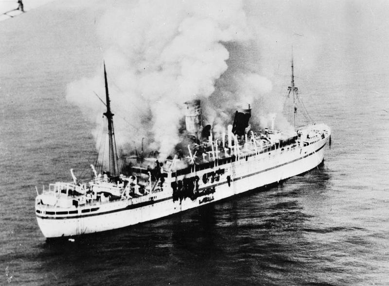 The British troopship HMT Empire Windrush on fire off the port of Algiers after the evacuation of passengers and crew. March 1954